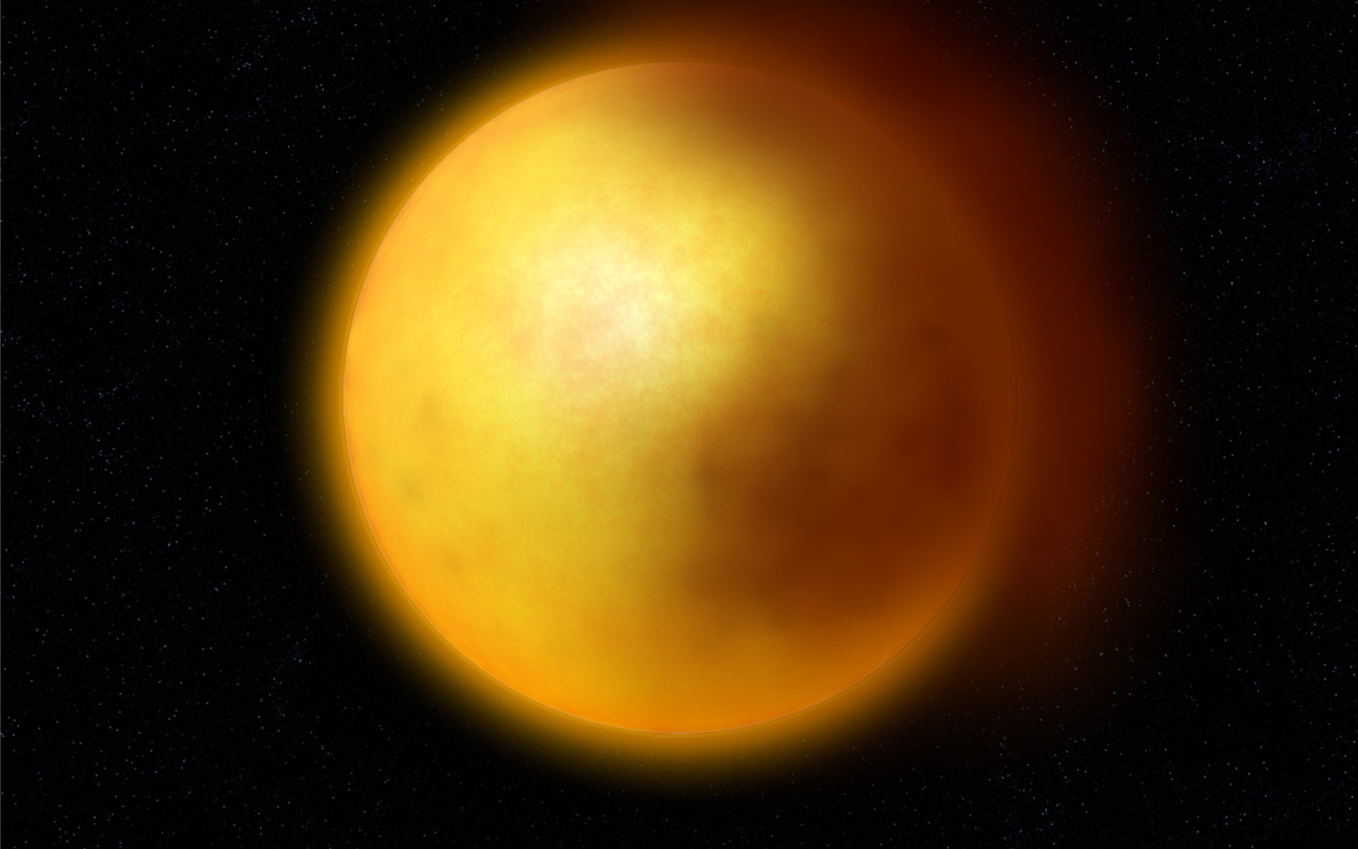 Artist rendering of the surroundings of a R Coronae Borealis star, as inferred from the observations obtained with ESO's Very Large Telescope. Such stars show erratic variability that is thought to arise from the presence of large clouds of dust in their envelope.